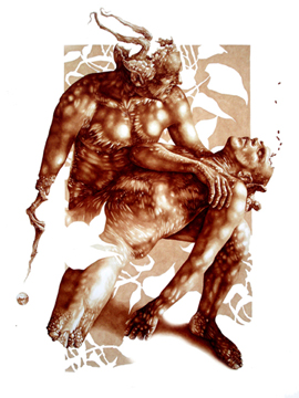 "The Sleep", 2006, 55" x 83", blood on paper, by Vincent Castiglia